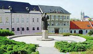 Pribina's Square in Nitra, Slovakia. The statue in center is the Pribina Stutue and building to the left is the St. Gorazd Seminary, which is named after St. Gorazd, who was born Močenok, near Nitra, and became the first Slovak saint.